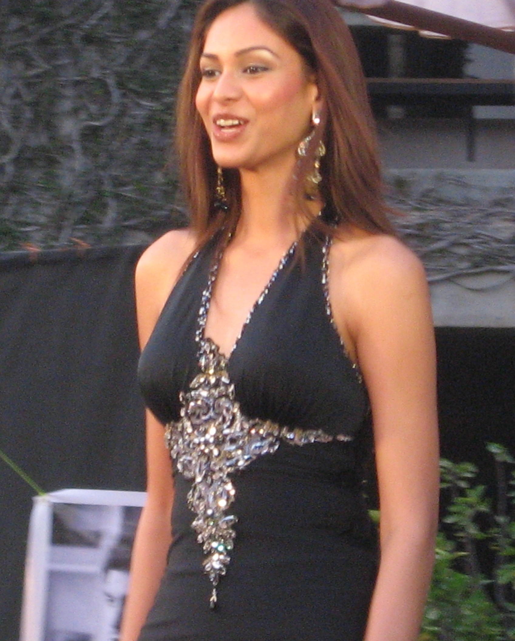 Amruta Patki on the stage at Unmaad 2007, the annual cultural festival of IIM Bangalore.